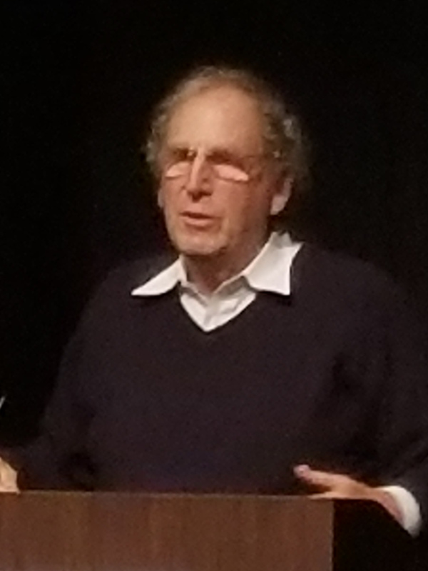 Nathaniel Dorsky at a Q&A at the Berkeley Art Museum and Pacific Film Archive in Berkeley, California, United States